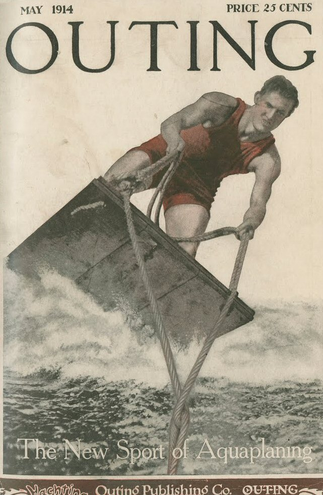 1914-Outing-Mag-Cover